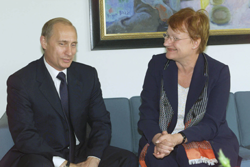 TURKU. President Putin and his Finnish counterpart, Tarja Halonen.